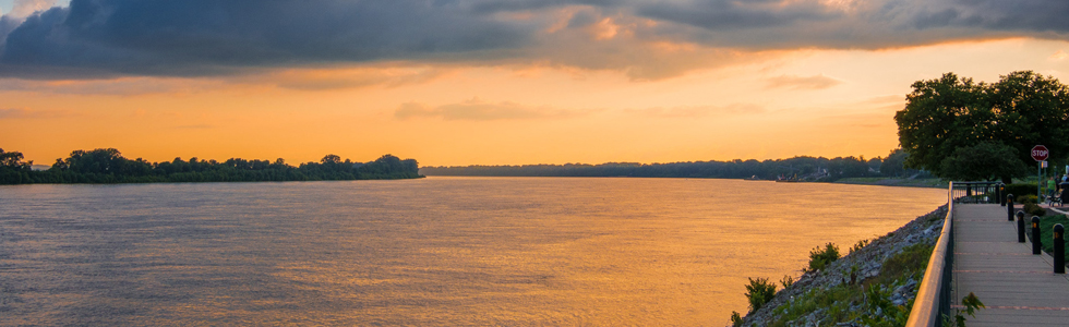 A view of the river from downtown Newburgh, Indiana